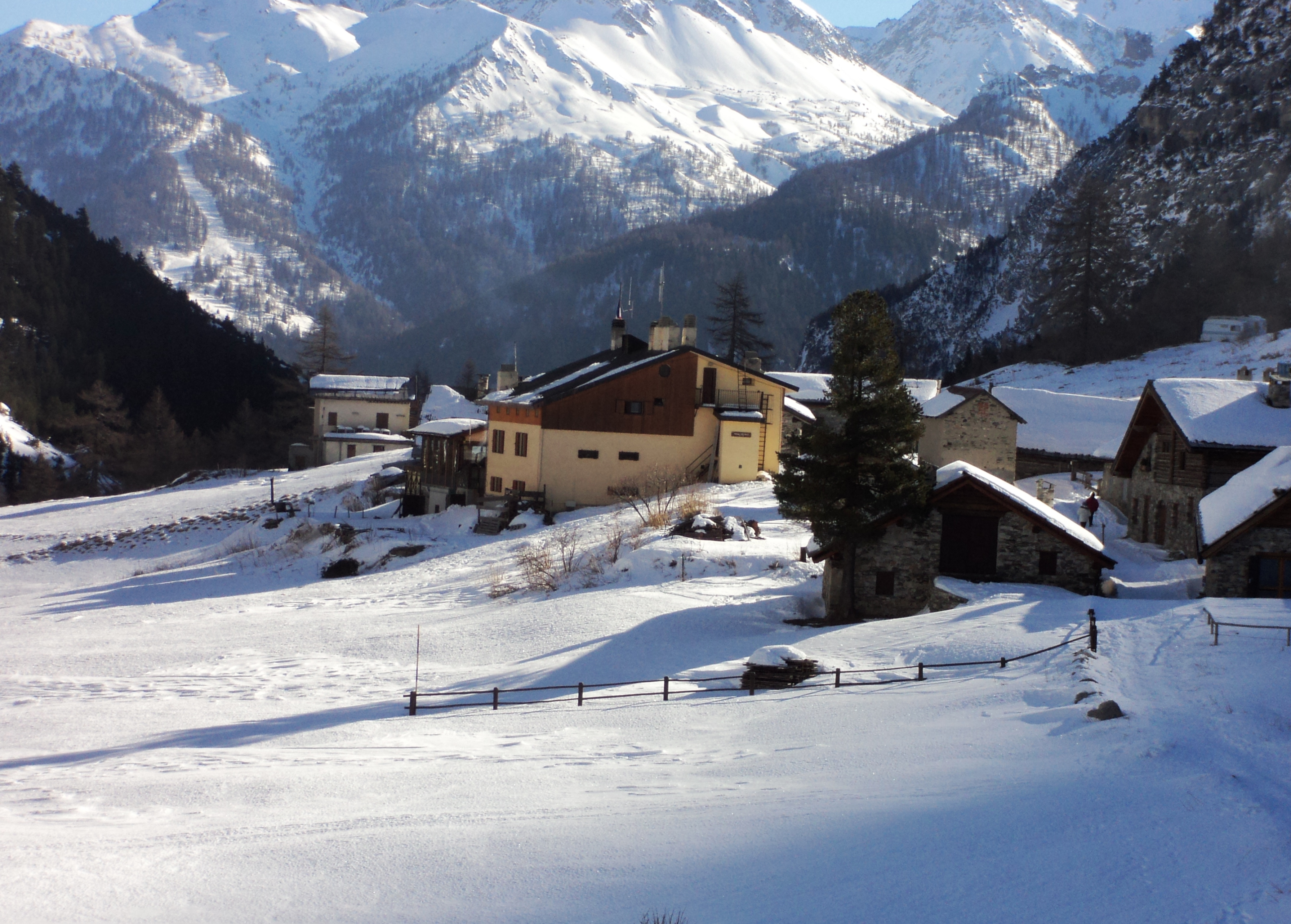 Rifugio I Re Magi - Cottian Alps - Hautes-Alpes - France